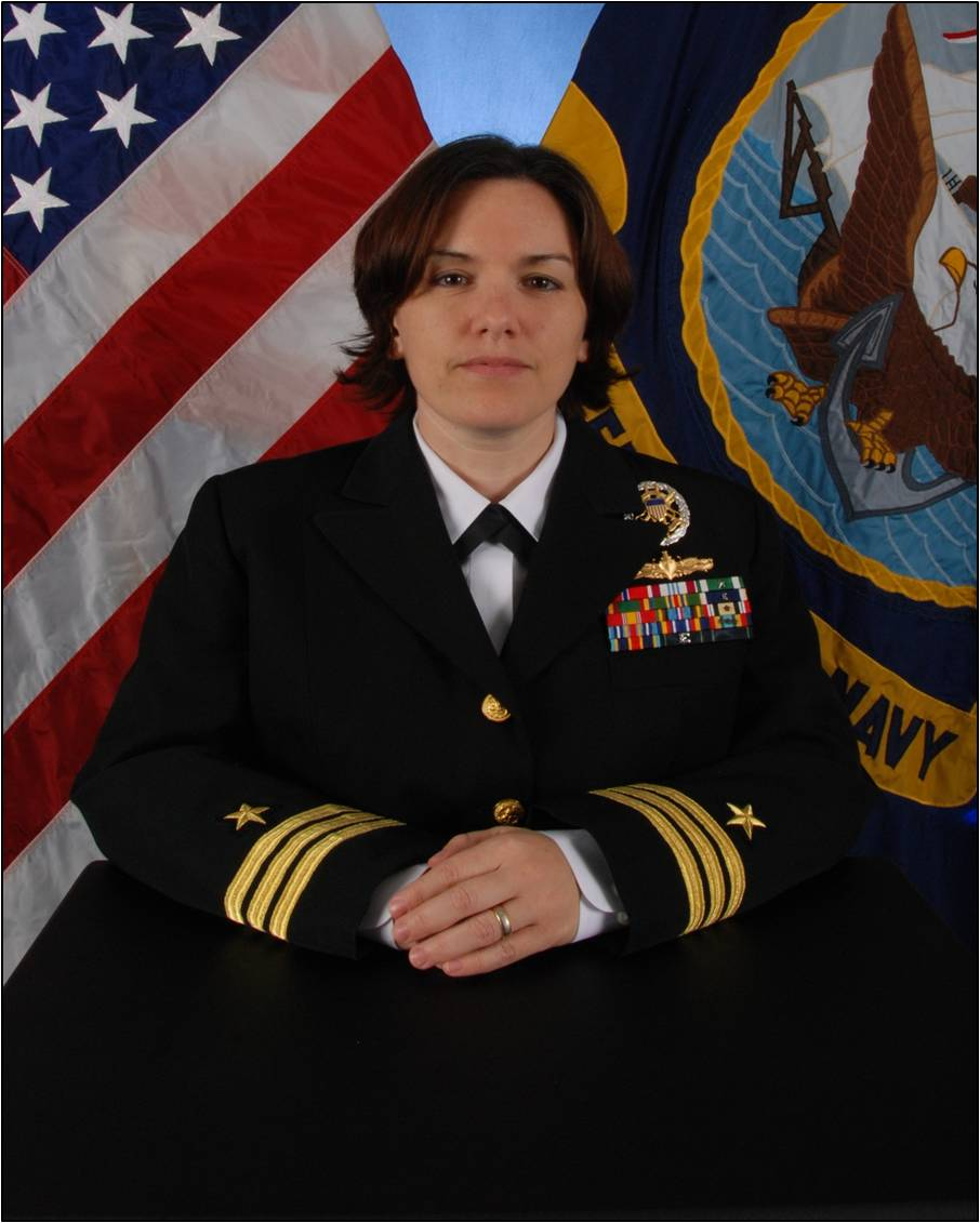 CDR Michele M. Day, USN (X.O.).